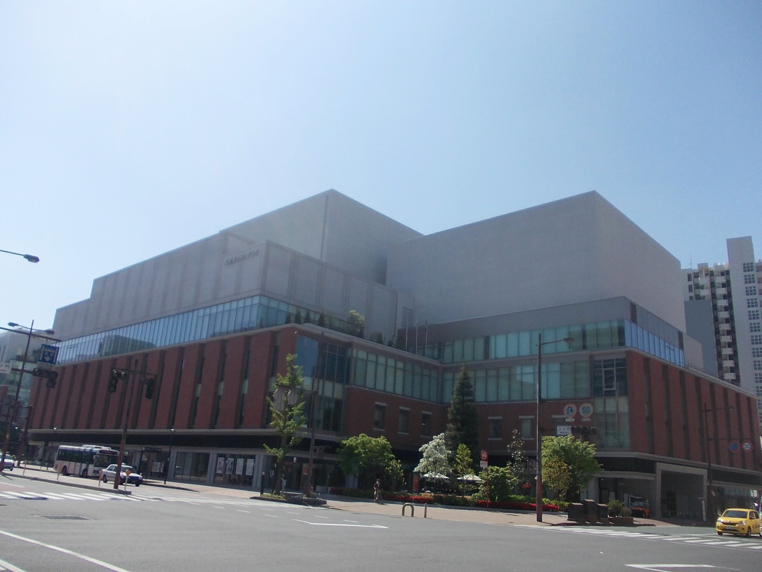 Kurume City plaza, Kurume, Fukuoka, Japan. It was open at the site of Kurume Izutsuya Department Store, on April 27, 2016.